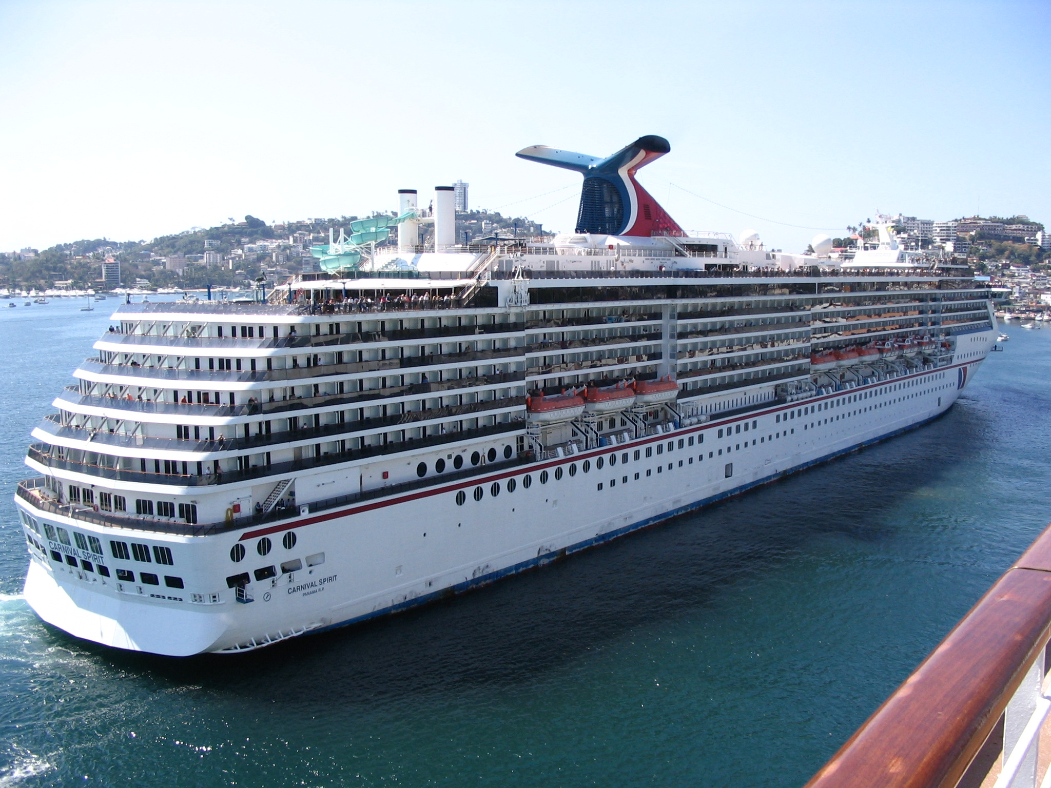 The Carnival Spirit docking in the port of Acapulco.